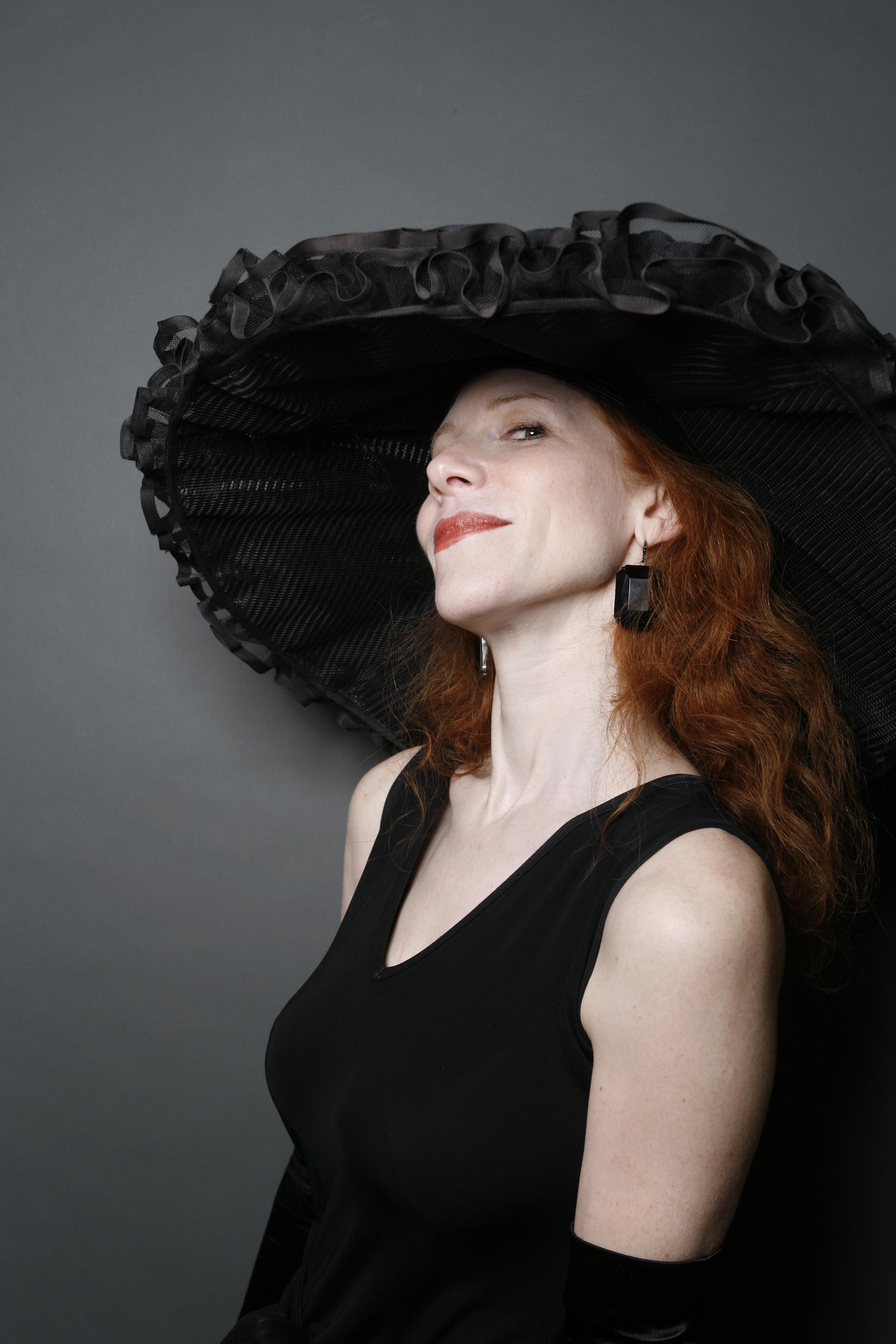 American newspaper columnist "Advice Goddess" Amy Alkon wearing a hat by Amy Downs. Part of the collection: "You're the Top: A Celebration of Glamorous Hats & the People Who Wear Them - Marking DeepGlamour's 1st Birthday and the Birth of Downtown Fashion Walk".